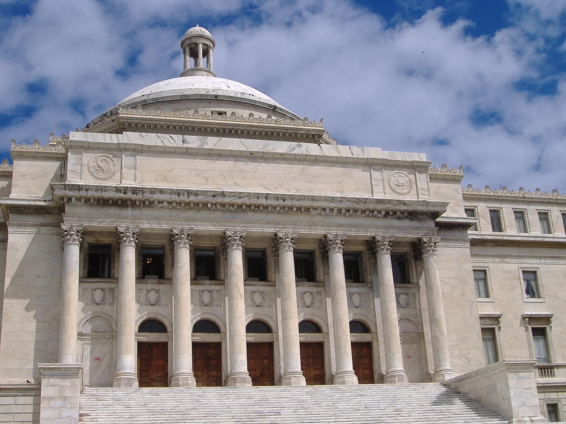 South view of the Capitol of Puerto Rico building, located in the Puerta de Tierra district of San Juan, Puerto Rico.